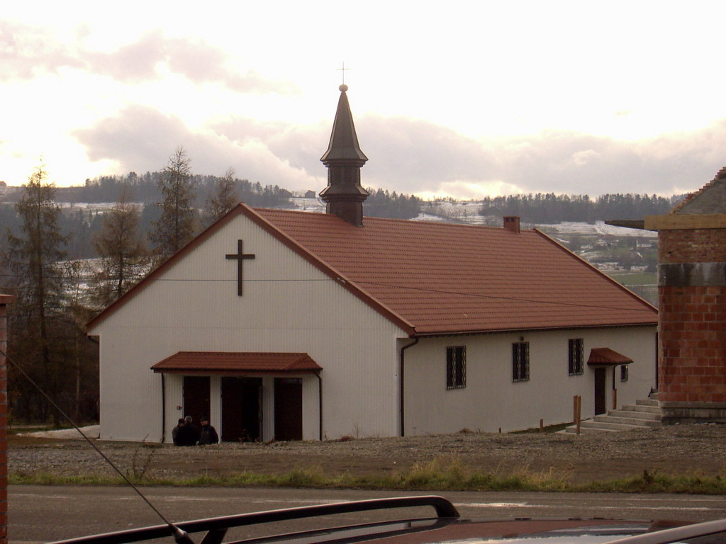 Temporary church in Mordarka